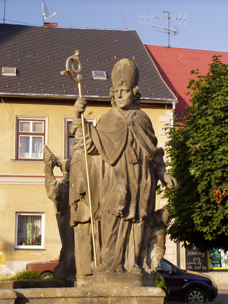 Statue of Saint Procopius of Sázava, a part of Marian column in town square of Hodkovice nad Mohelkou, Liberec District, Czech Republic. A chronogram gives 1710 as the year of erection of the column, the surrounding six statues of patrons saint of Bohemia were added during first half of 18th century.